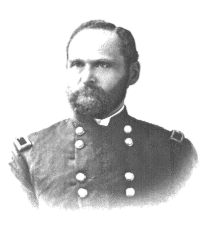 Aaron S. Daggett, Civil War brigadier general of the volunteers, abolitionist, last surviving Civil War general